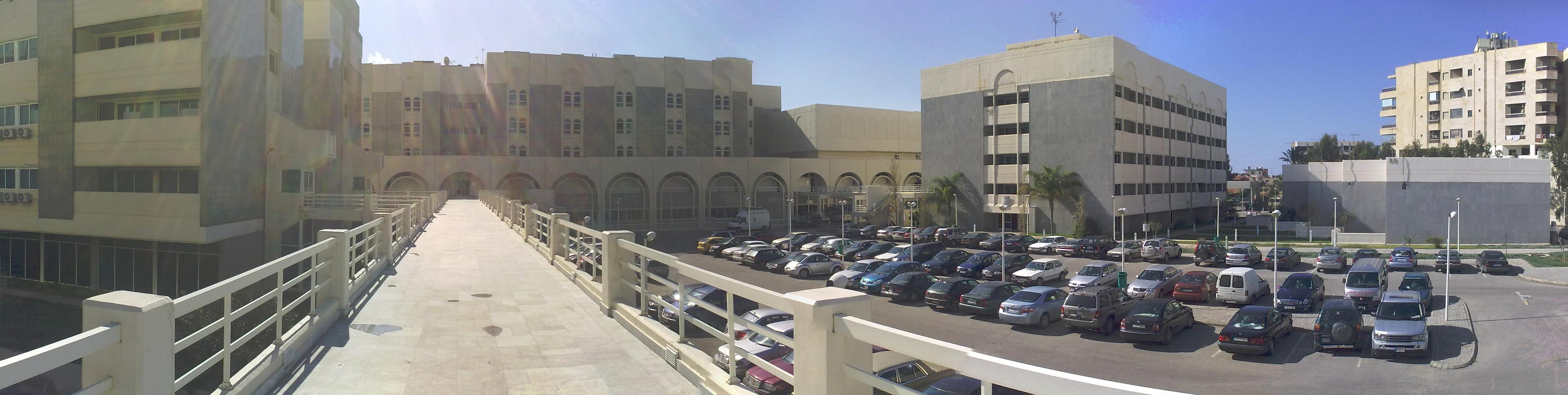 The inner yard at the RHUH